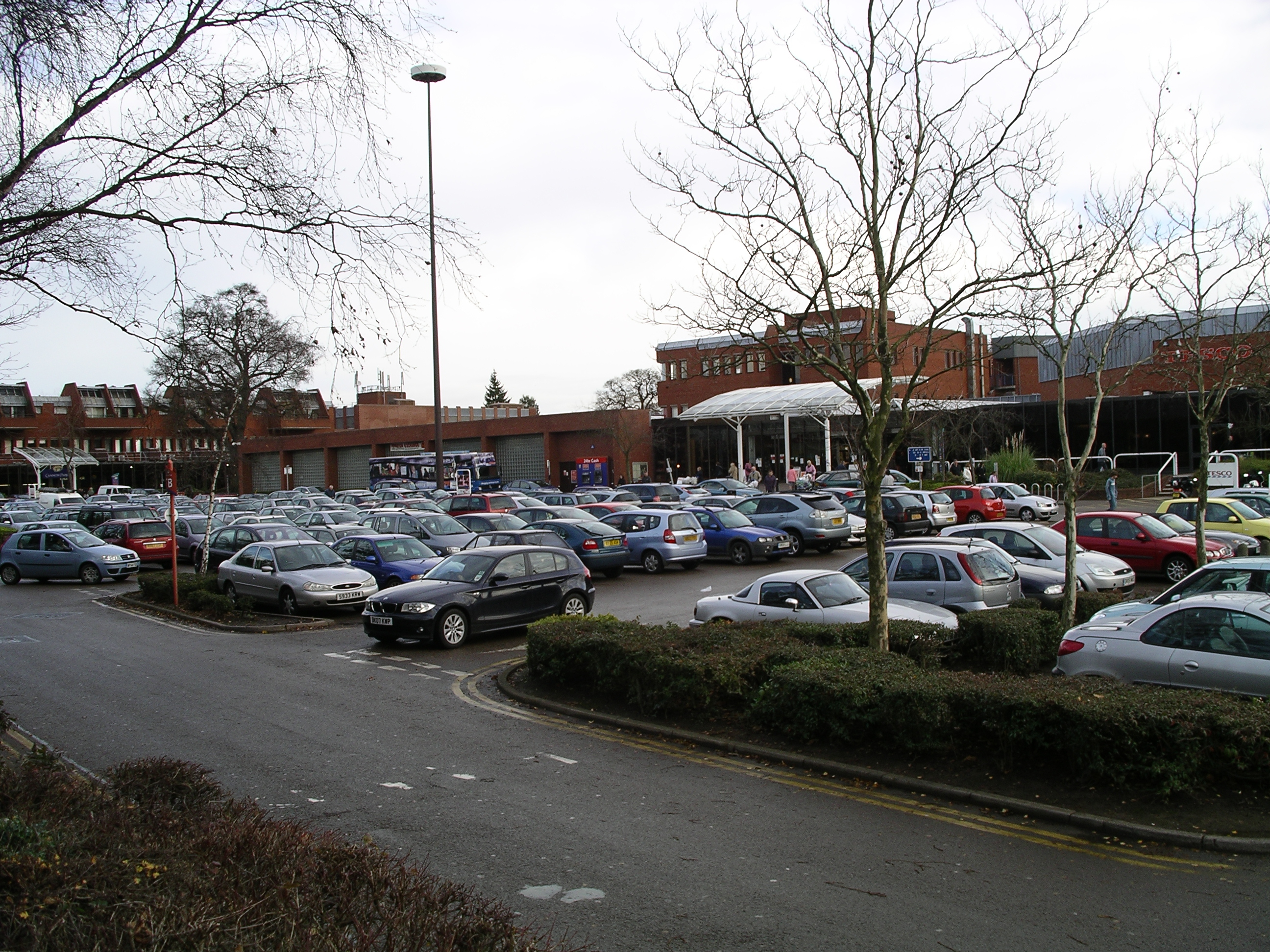 Cannon Park shopping centre, Coventry, England. Shows the main entrance and the car park.